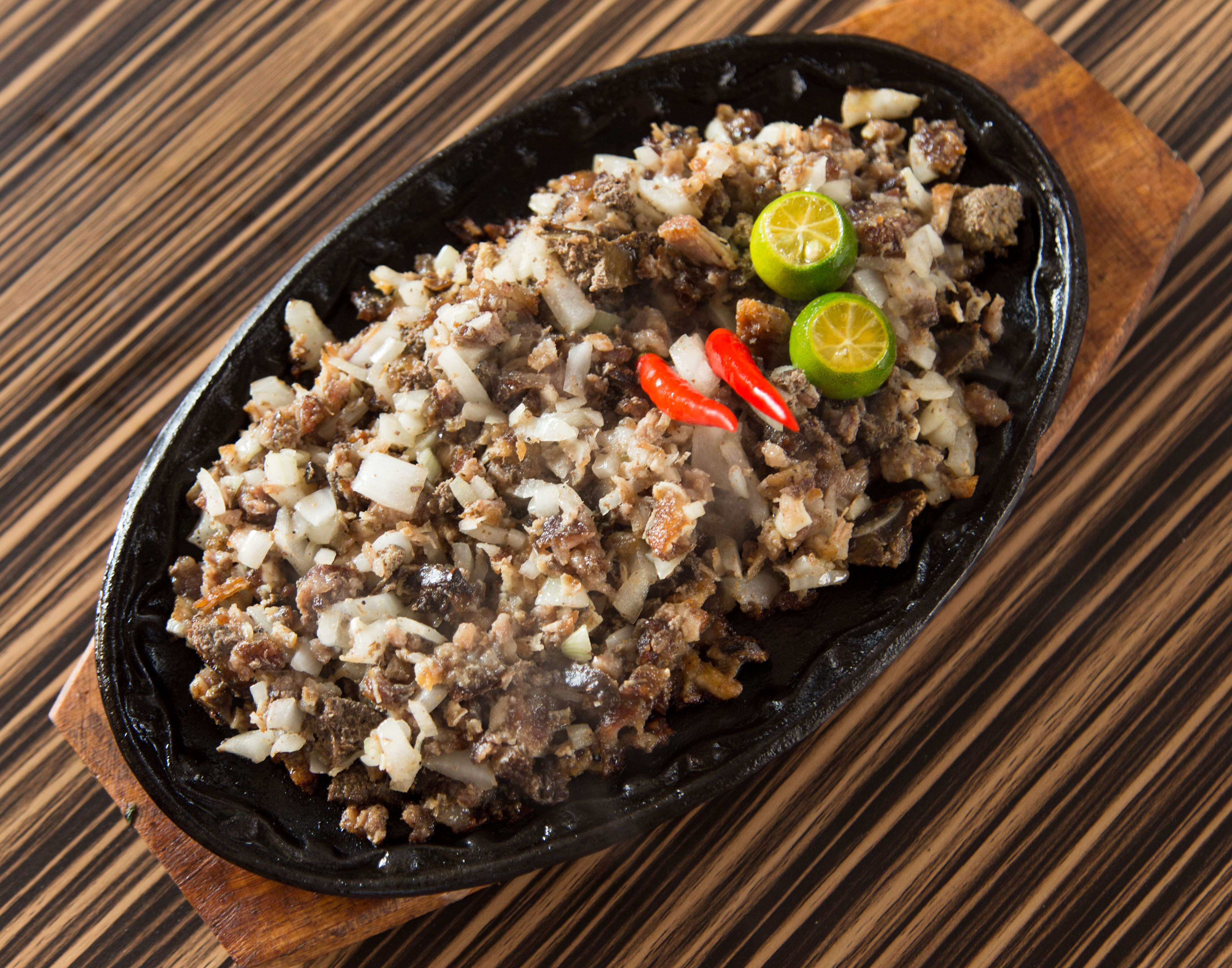 Authentic Kapampangan Sisig has no raw egg nor mayonnaise (photo by Bruno Tiotuico for the Angeles City Tourism Office)